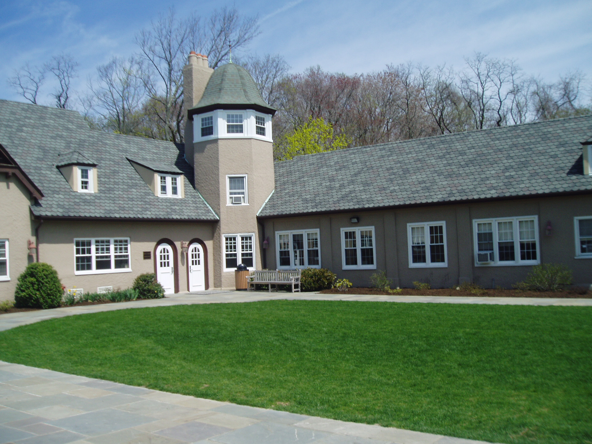 Portledge School's Middle School from the courtyard's south-west corner